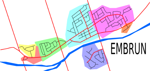 Map of Embrun, Ontario with the various neighborhoods shaded